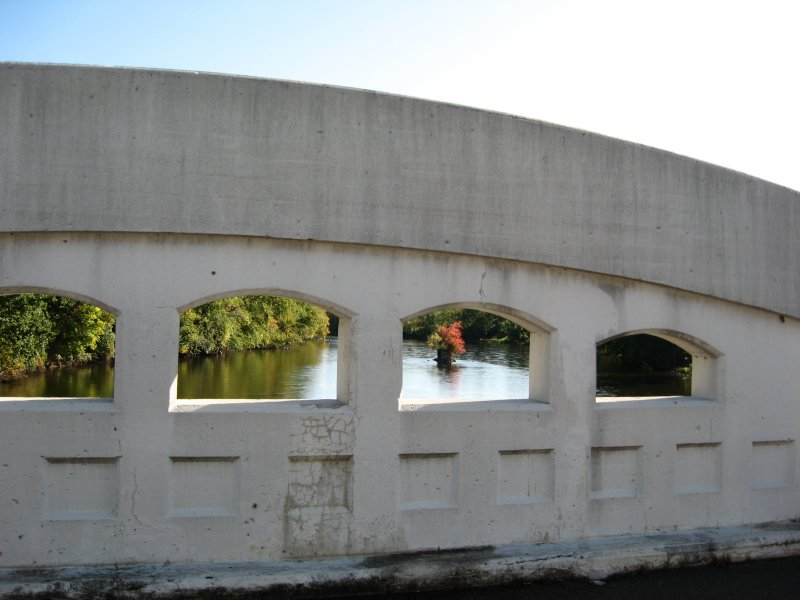 Closeup of the arches of the US 12–St. Joseph River Bridge.